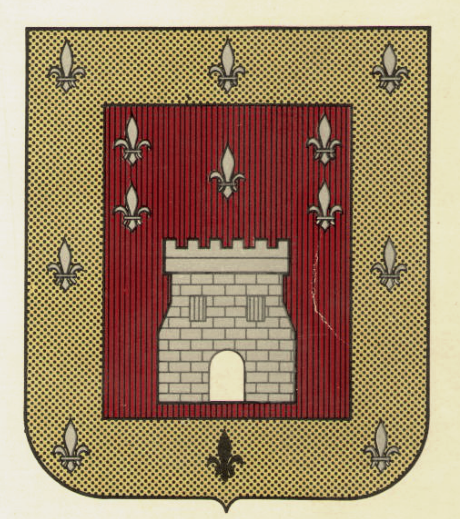 Farías family coat of arms